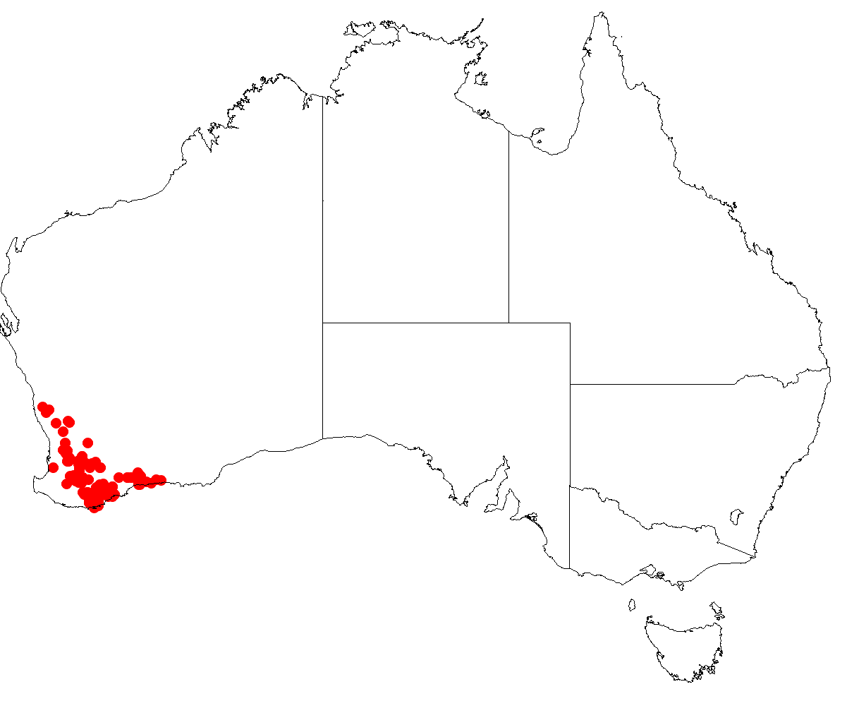 Billardiera venusta occurrence data from Australasian Virtual Herbarium downloaded 5 July 2018